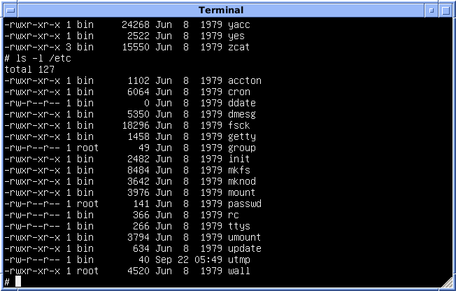 Version 7 Unix for the PDP-11, running in the SIMH PDP-11 simulator. The contents of "/etc", which contains configuration files, binary executables, and more.